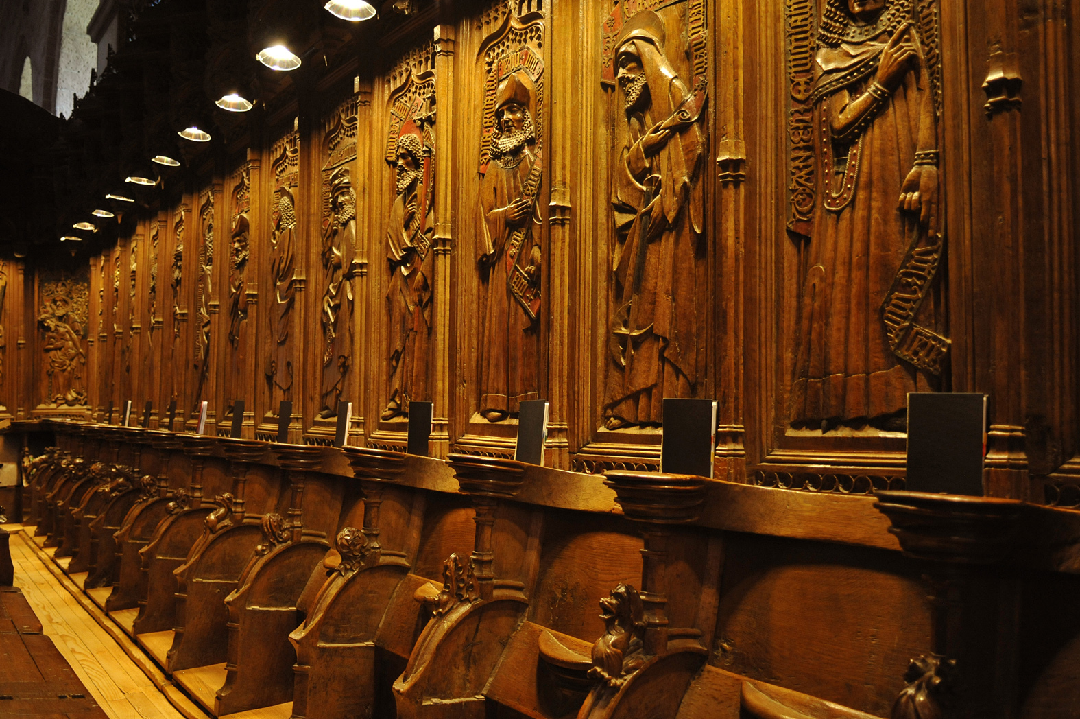 Abbey Altenryf in Hauterive; Choir; Fribourg, Switzerland.